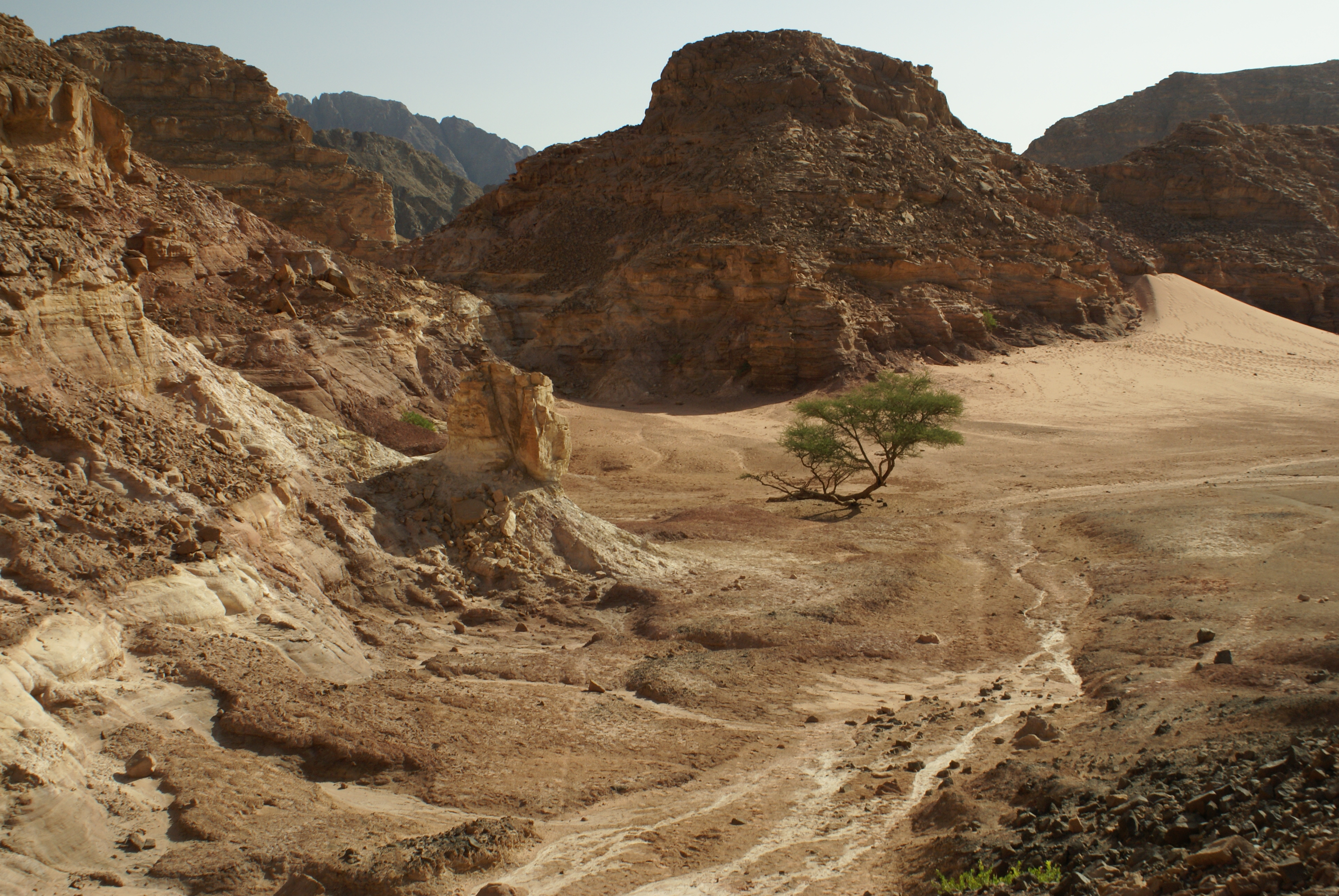 Looking down into a wadi on the Sinai Peninsula, Egypt. A tree of an unidentified species of Acacia (possibly Acacia tortilis) grows even in this arid environment.